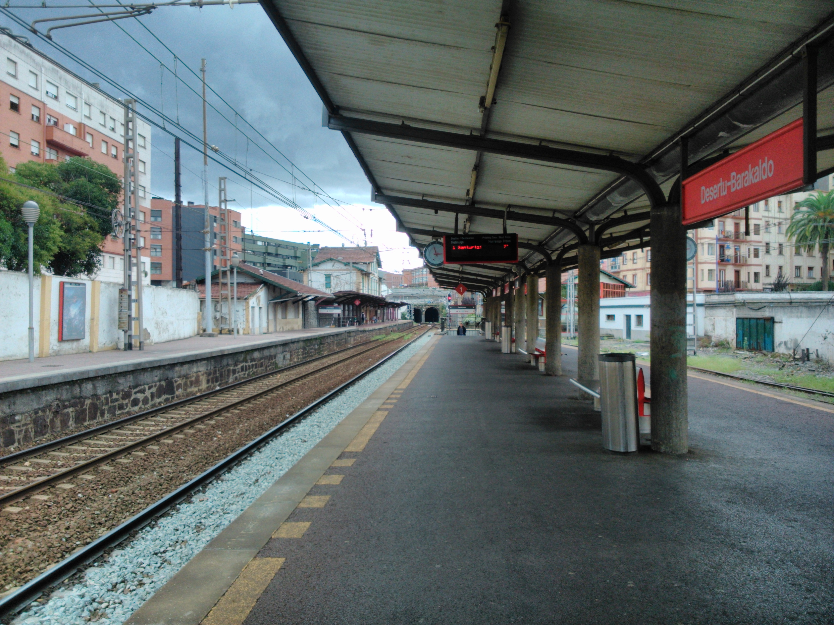 Desertu Barakaldo station - Adif - Renfe Cercanías Aldiriak